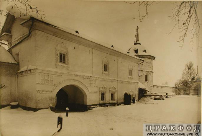 Antoniev Krasnokholmsky Monastery